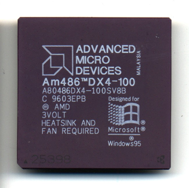 AMD Enhanced Am486 DX4-100 microprocessor, 100 MHz, 3.3V SV8B version with 8 KiB Write-Back L1-Cache Source: my own CPU collection